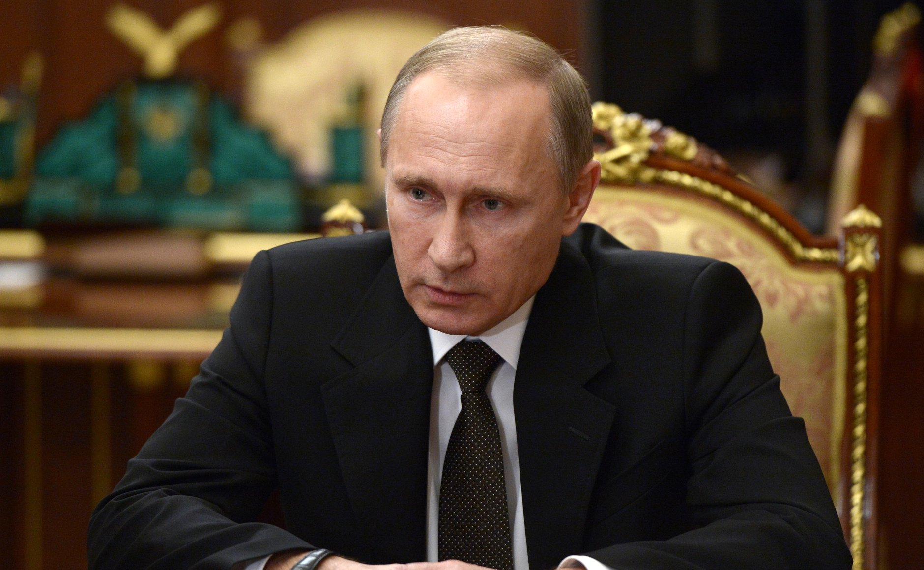 Meeting on investigation into the crash of a Russian airliner over Sinai (Kremlin, Moscow, 2015-11-17)